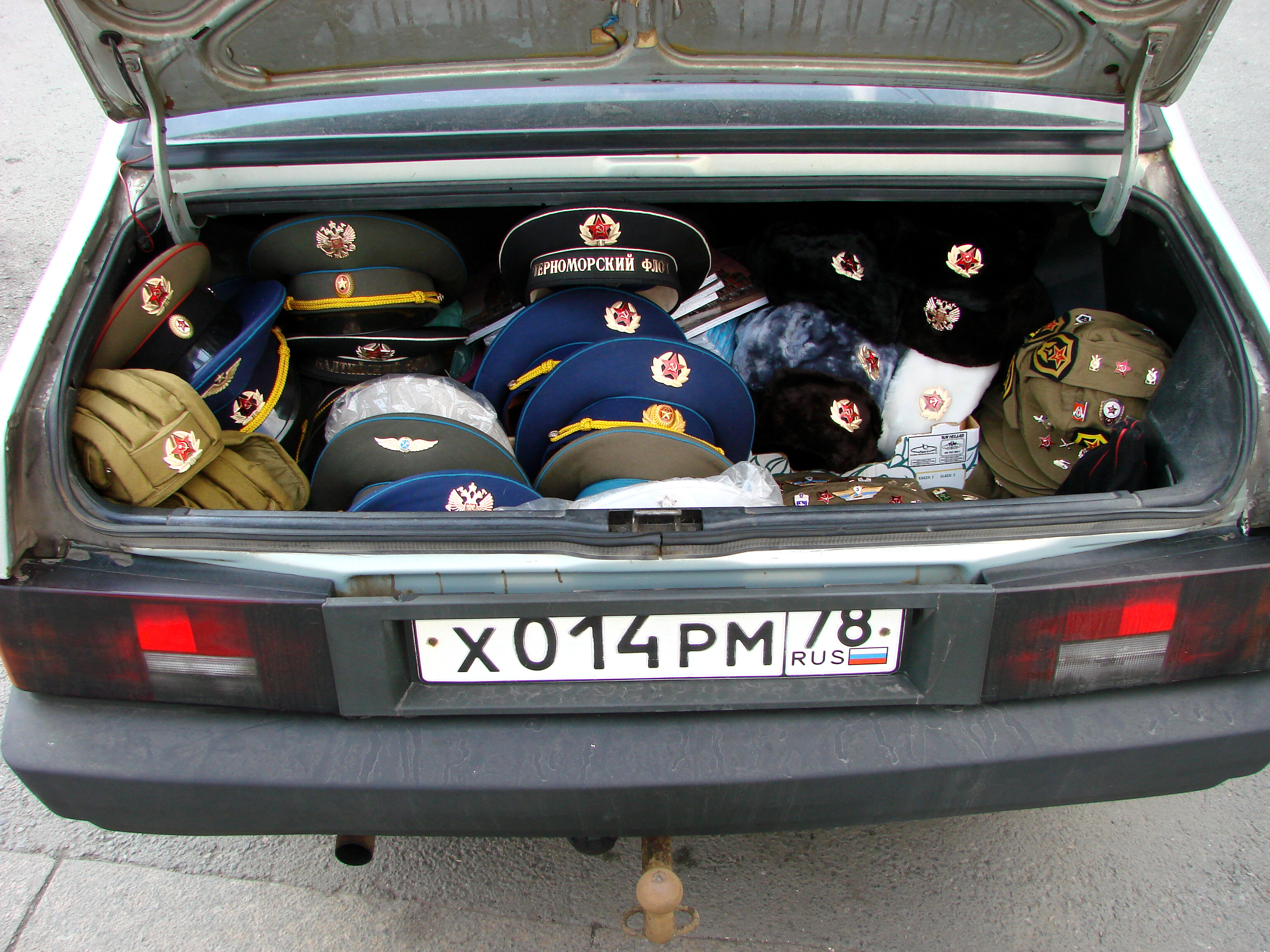 Souvenir caps and headgear sold out of a car trunk, St. Petersburg, Russia. May 2008.